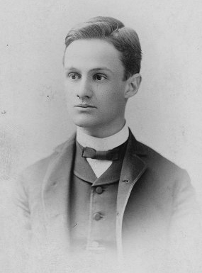 University of Pennsylvania graduation portrait of William Romaine Newbold